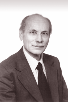 Jan Oderfeld, 1979